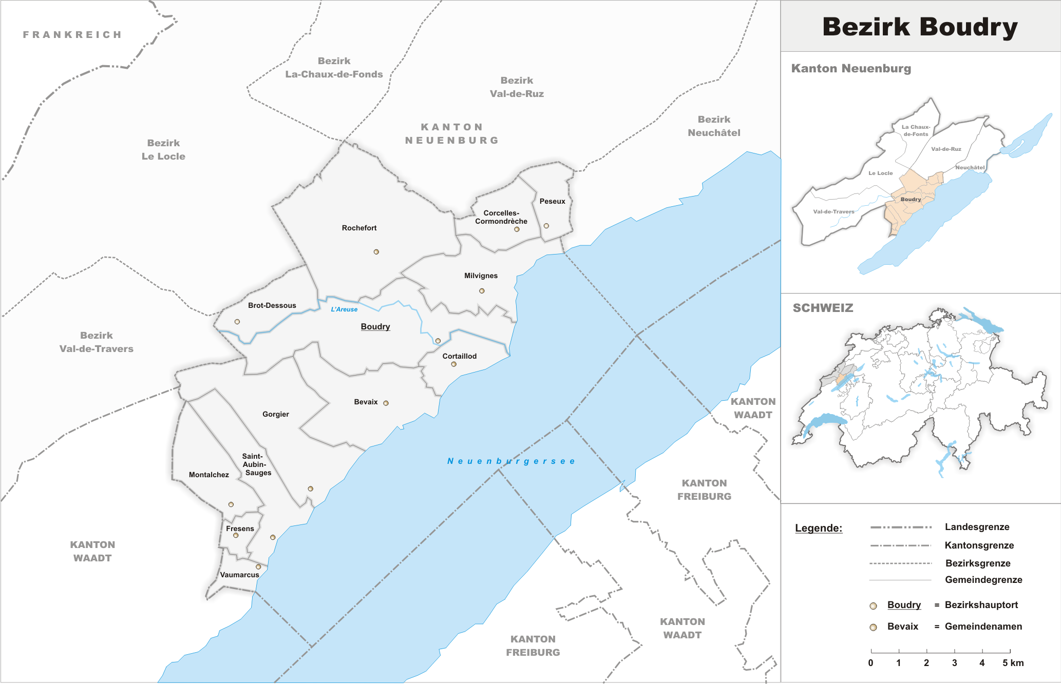 Municipalities in the district of Boudry